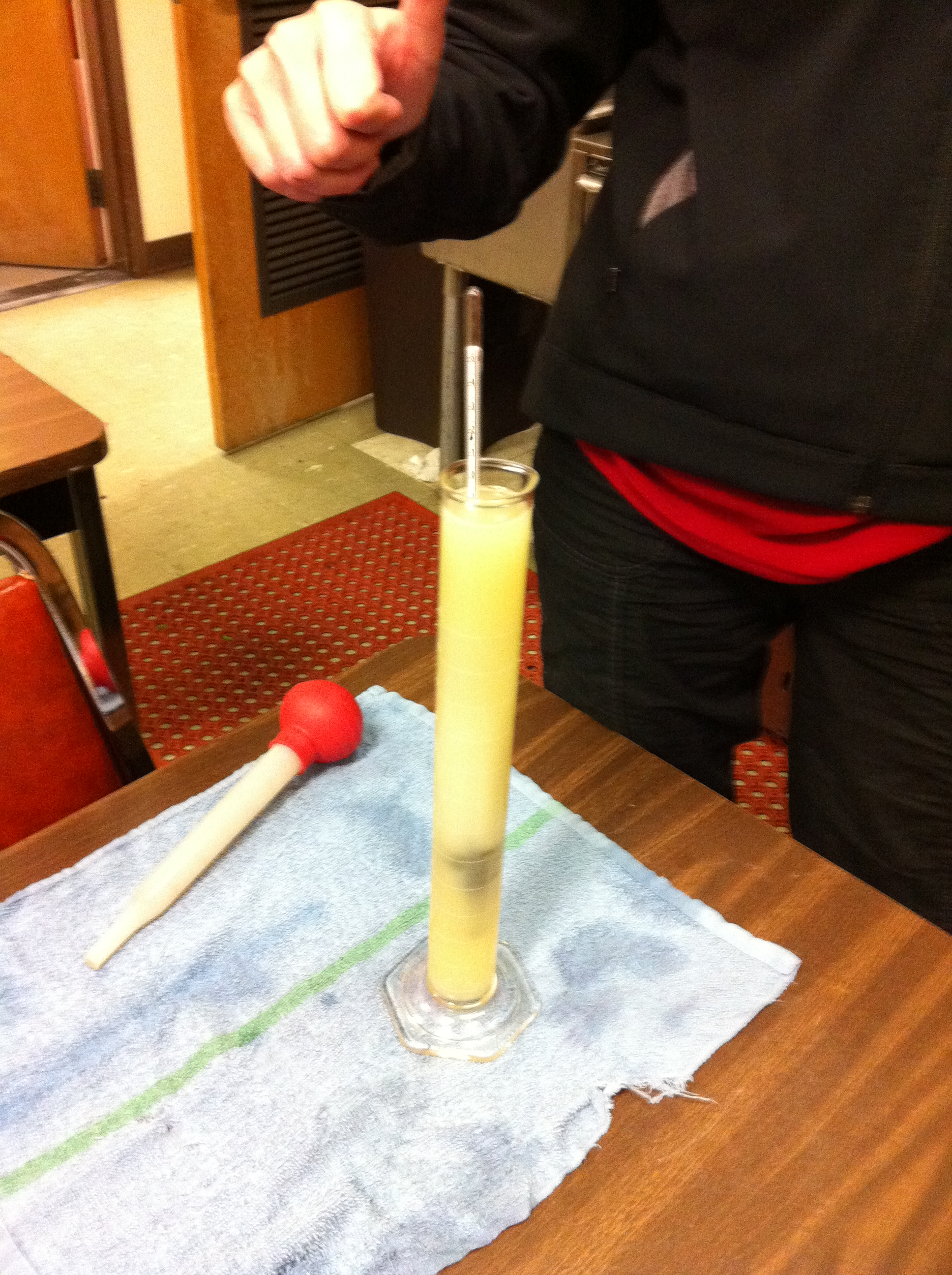 Getting a hydrometer brix reading on wine going through fermentation